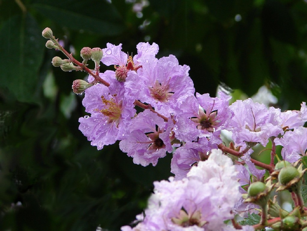 Lagerstroemia speciosa native to tropical Asia, photographed in Brisbane, Australia.